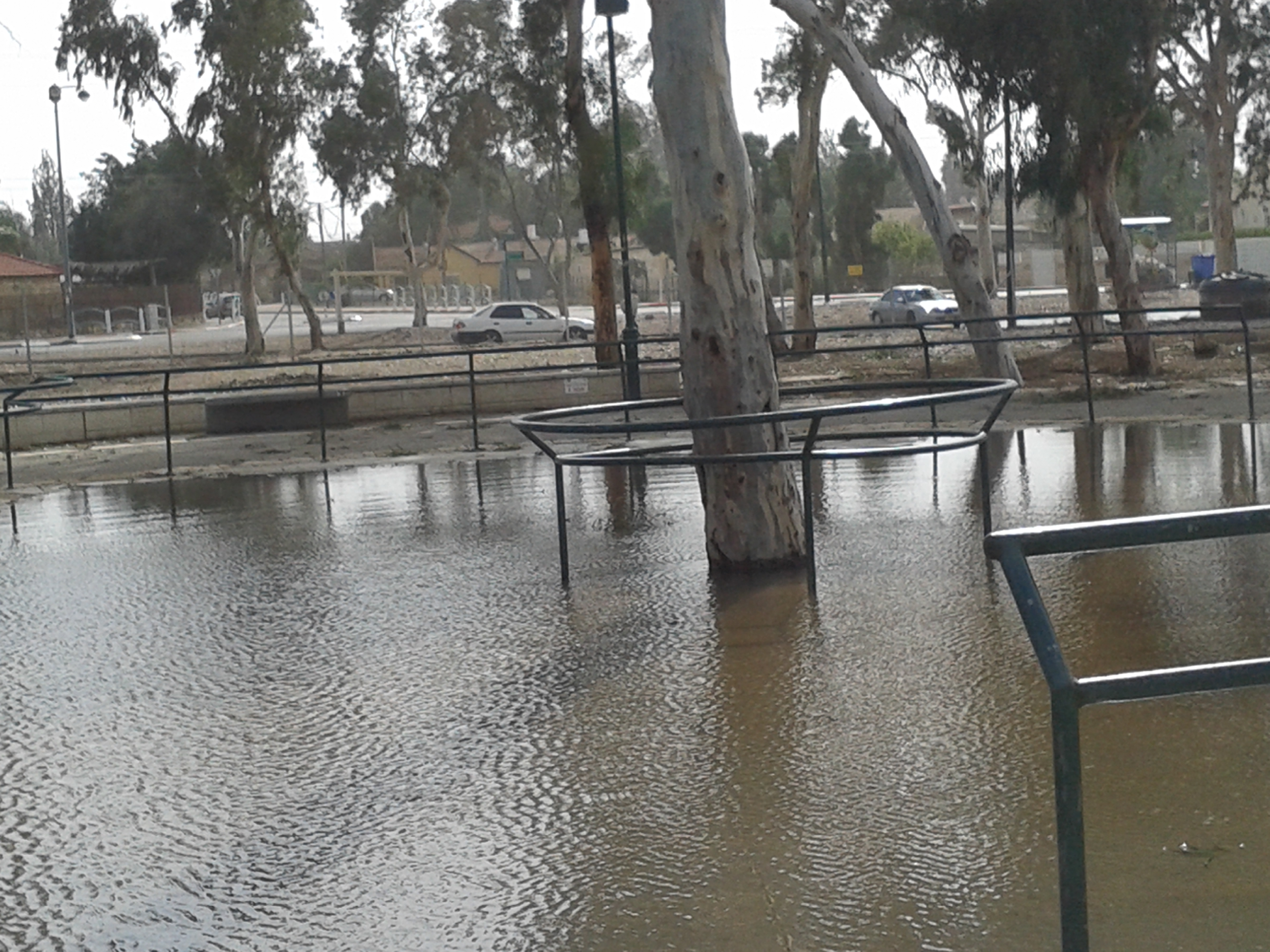 Water flows in Beersheba Stream. Tree reflects in water, in "Paamon" Park, BeerSheba, After the Beersheba River overflowed nearby, during a strong rain storm